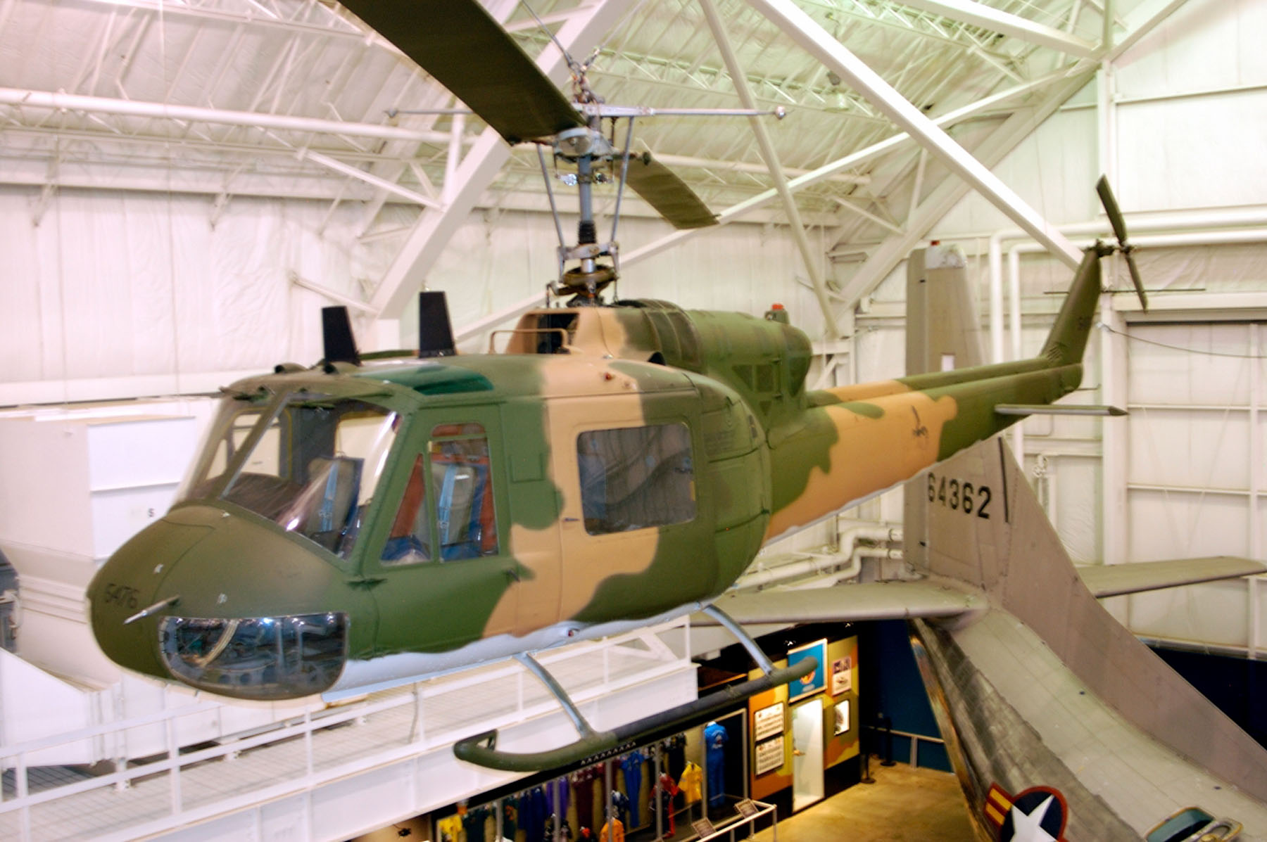 DAYTON, Ohio -- Bell UH-1P Iroquois in the Southeast Asia War Gallery at the National Museum of the United States Air Force. (U.S. Air Force photo)